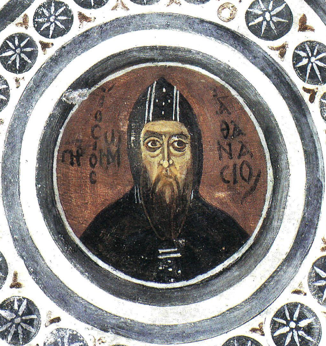 Hosios Loukas Monastery, Boeotia, Greece